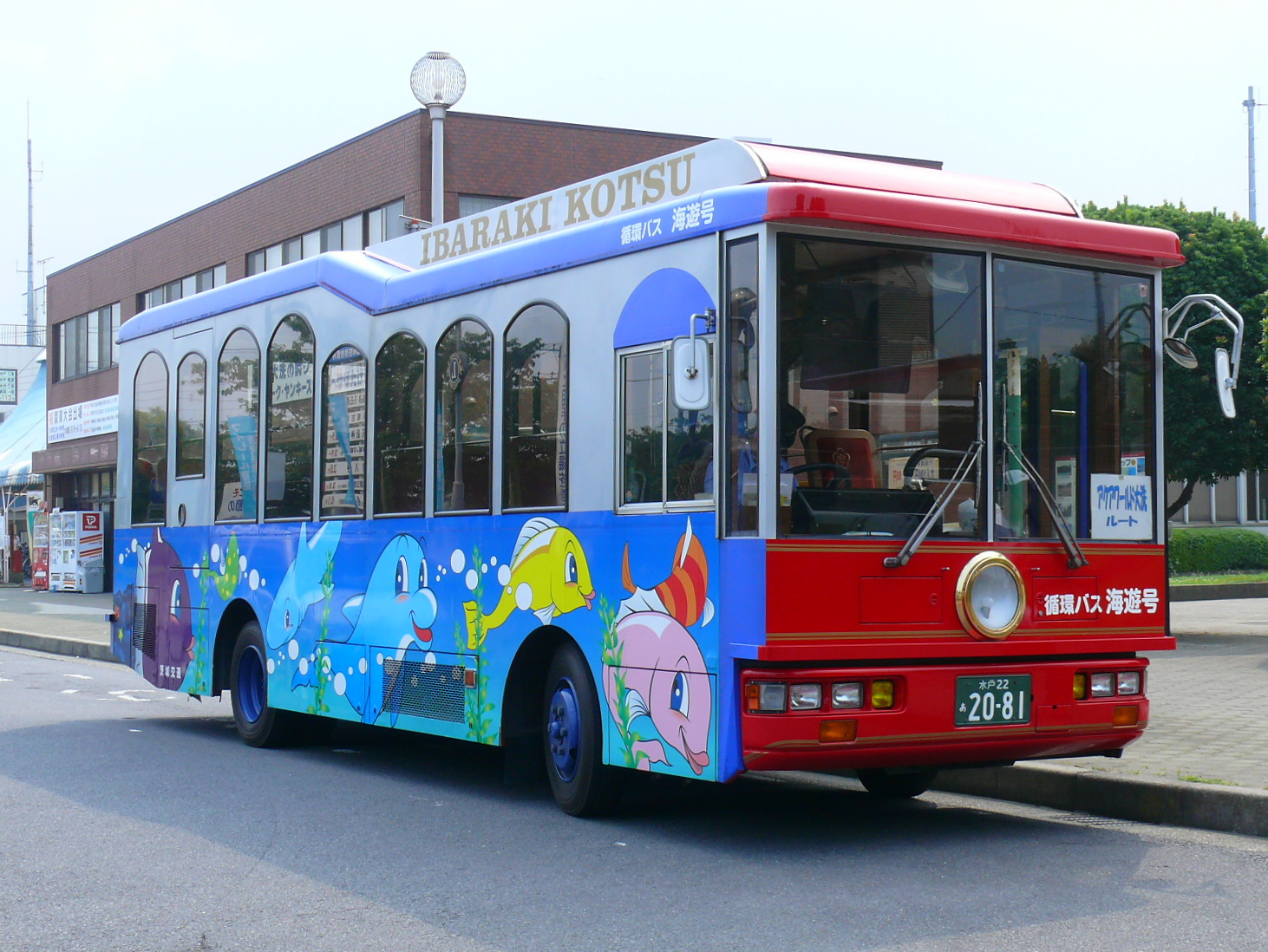 Kaiyu-gou Ibaraki town loop bus(Japan).